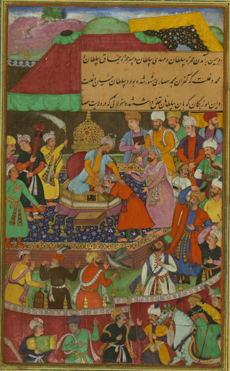 Illustrations from the Manuscript of Baburnama (Memoirs of Babur) - Late 16th Century Bāburnāma is the memoirs of Ẓahīr ud-Dīn Muḥammad Bābur (1483-1530), founder of the Mughal Empire and a great-great-great-grandson of Timur. It is an autobiographical work, originally written in the Chagatai language, known to Babur as "Turki" (meaning Turkic), the spoken language of the Andijan-Timurids. Because of Babur's cultural origin, his prose is highly Persianized in its sentence structure, morphology, and vocabulary,and also contains many phrases and smaller poems in Persian. During Emperor Akbar's reign, the work was completely translated to Persian by a Mughal courtier, Abdul Rahīm, in AH (Hijri) 998 (1589-90). These Paintings, being a fragment of a dispersed copy, was executed most probably in the late 10th AH /16th CE century. It contains 30 mostly full-page miniatures in fine Mughal style by at least two different artists. Another major fragment of this work (57 folios) is in the State Museum of Eastern Cultures, Moscow.